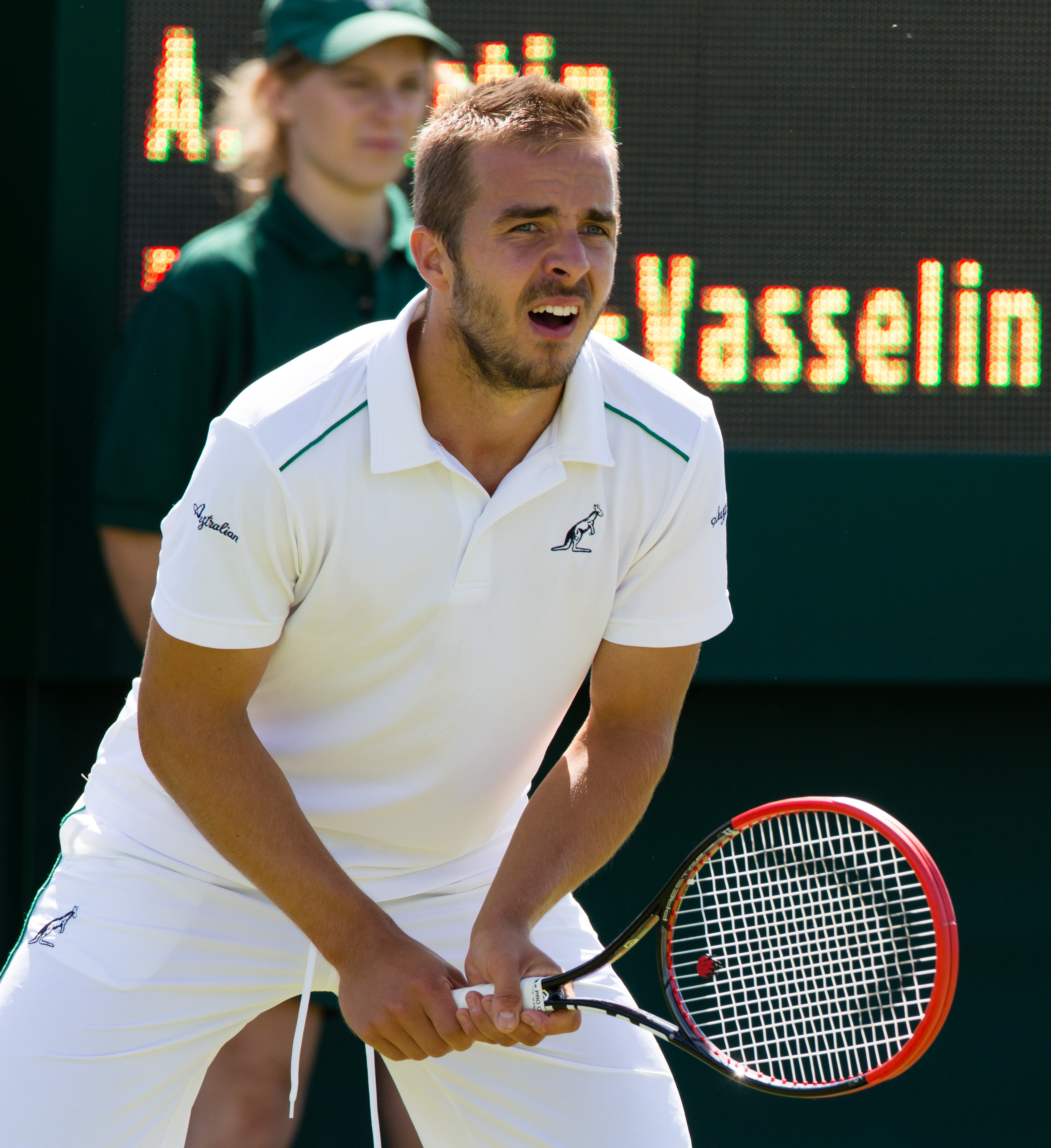 Andrej Martin competing in the first round of the 2015 Wimbledon Qualifying Tournament at the Bank of England Sports Grounds in Roehampton, England. The winners of three rounds of competition qualify for the main draw of Wimbledon the following week.